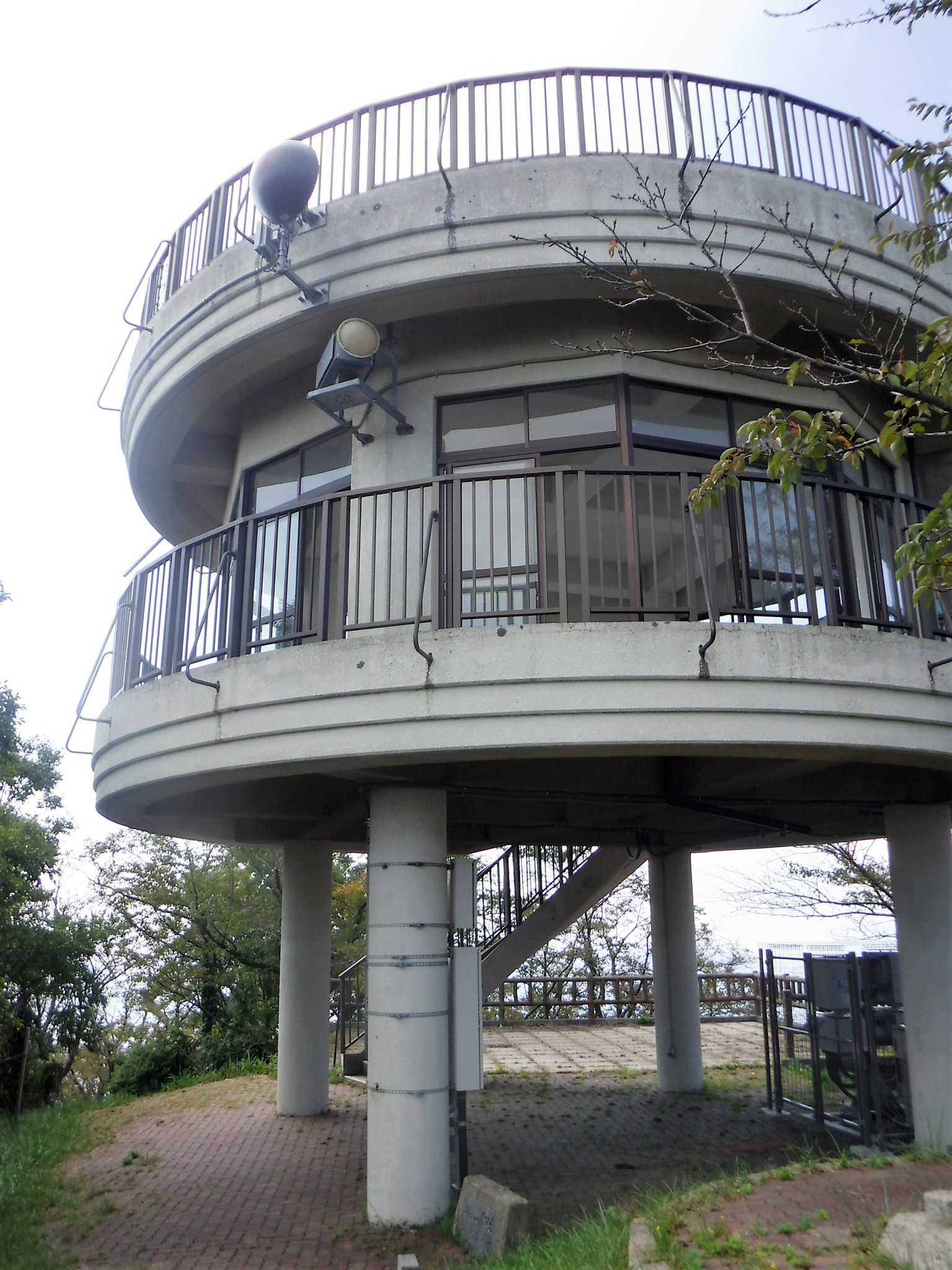 Observatory of the Mt. sekizen, iwaki-is;and, ehime-pref, JAPAN